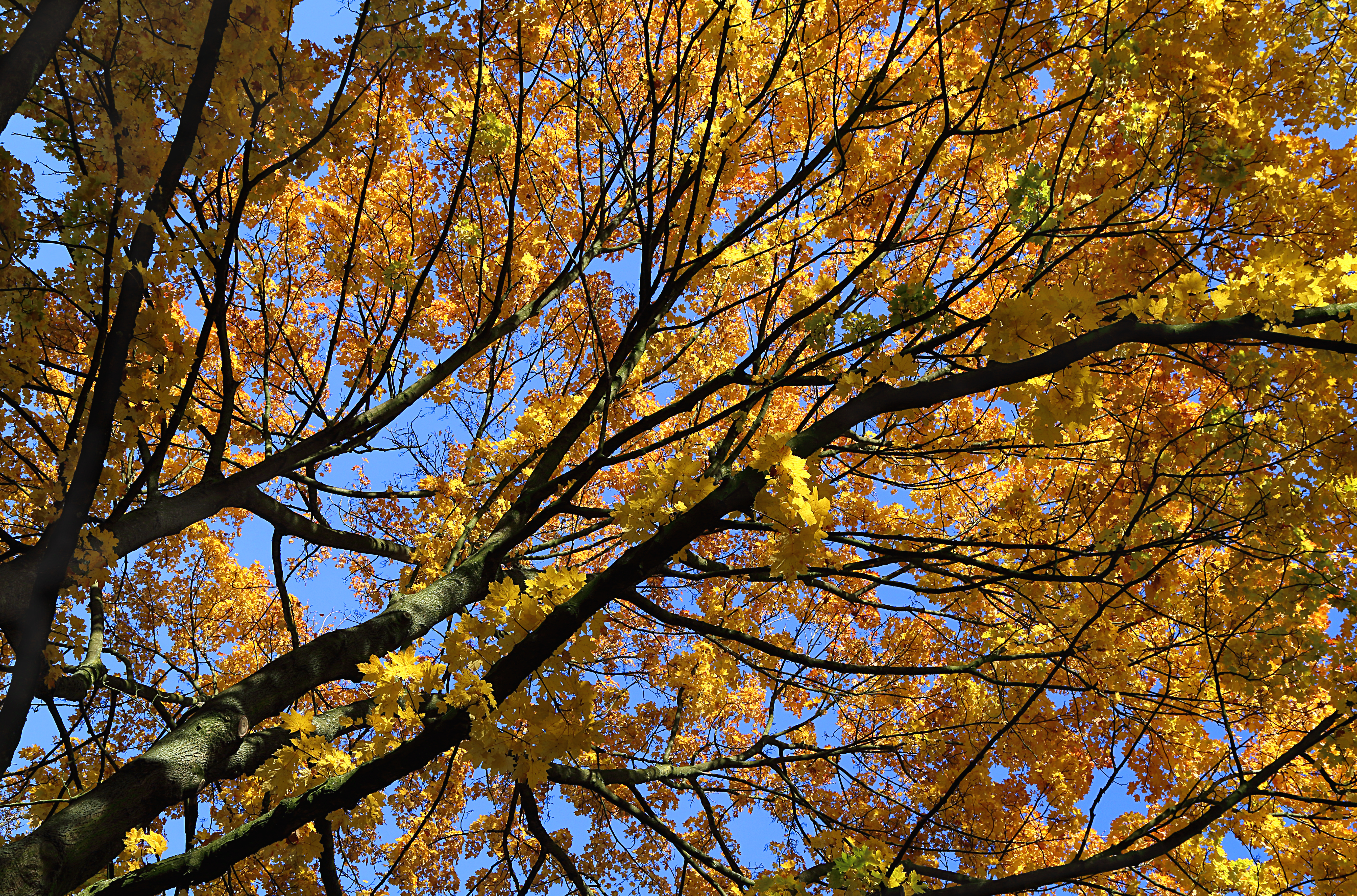 Acer platanoides (Norway Maple) in autumn, picture taken in the municipal park of Mouscron, Belgium.